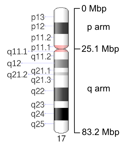 Ideogram of human chromosome 17. G-band, 550 bphs (bands per haploid set). Black and gray: Giemsa positive. Red: Centromere. Light blue: Variable region. Dark blue: Stalk. Mbp: Mega base pairs.